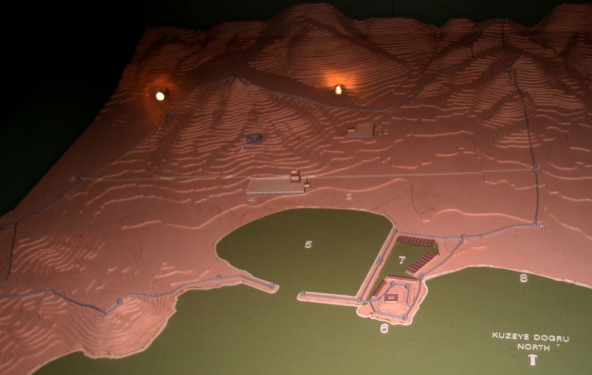 Plan of Halicarnassos as enlarged by Mausole (353 av. JC)1) City Wall 2) Gateway facing Myndos 3) Market Square 4) Maussolleion 5) Main Harbour 6) Royal Palace of Maussollos 7) Closed military harbour with shipsheds and arsenals accessible from the palace 8) Emporion (open trade harbour) 9) Theatre 10) Sanctuary of Ares